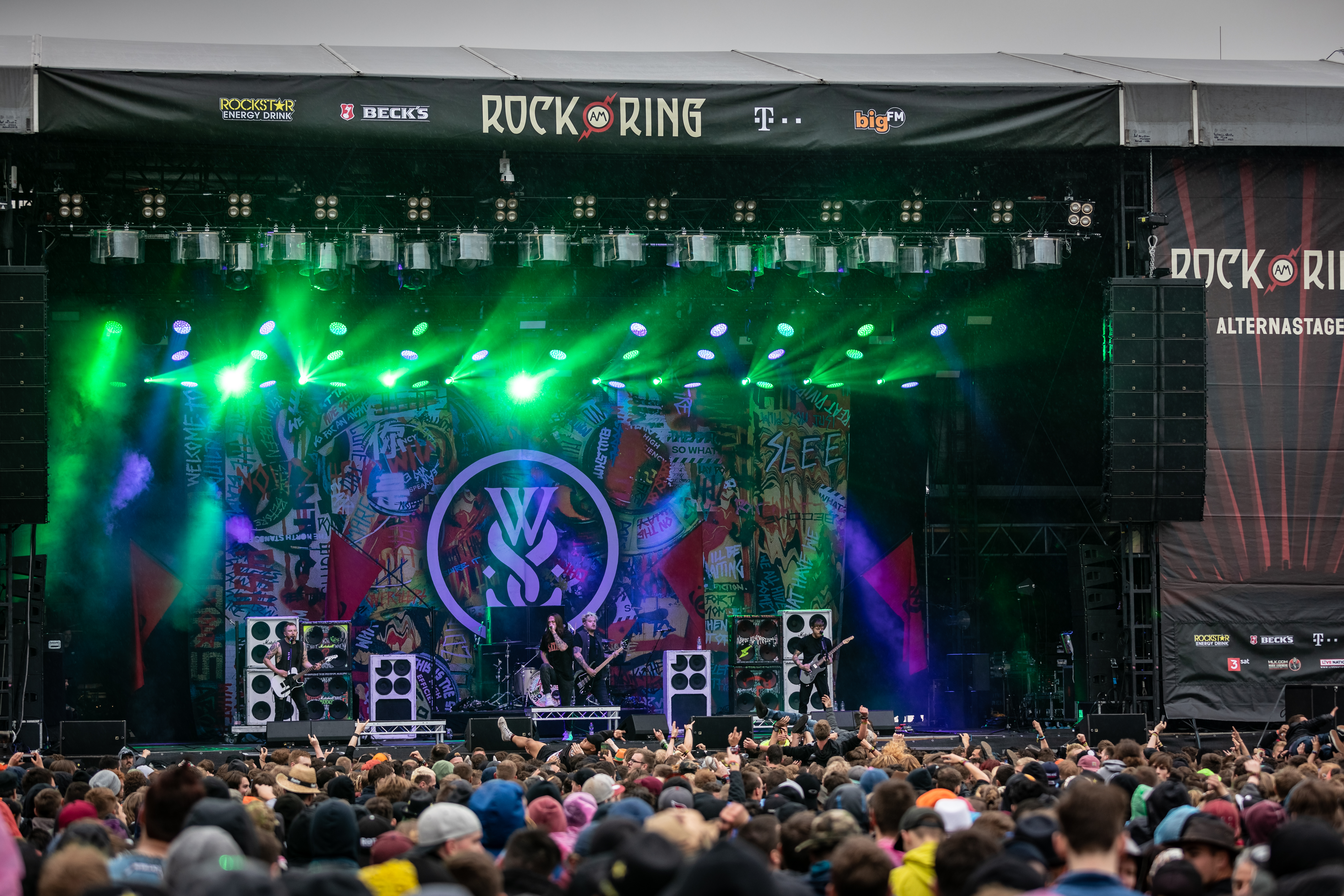 While She Sleeps - Rock am Ring 2019